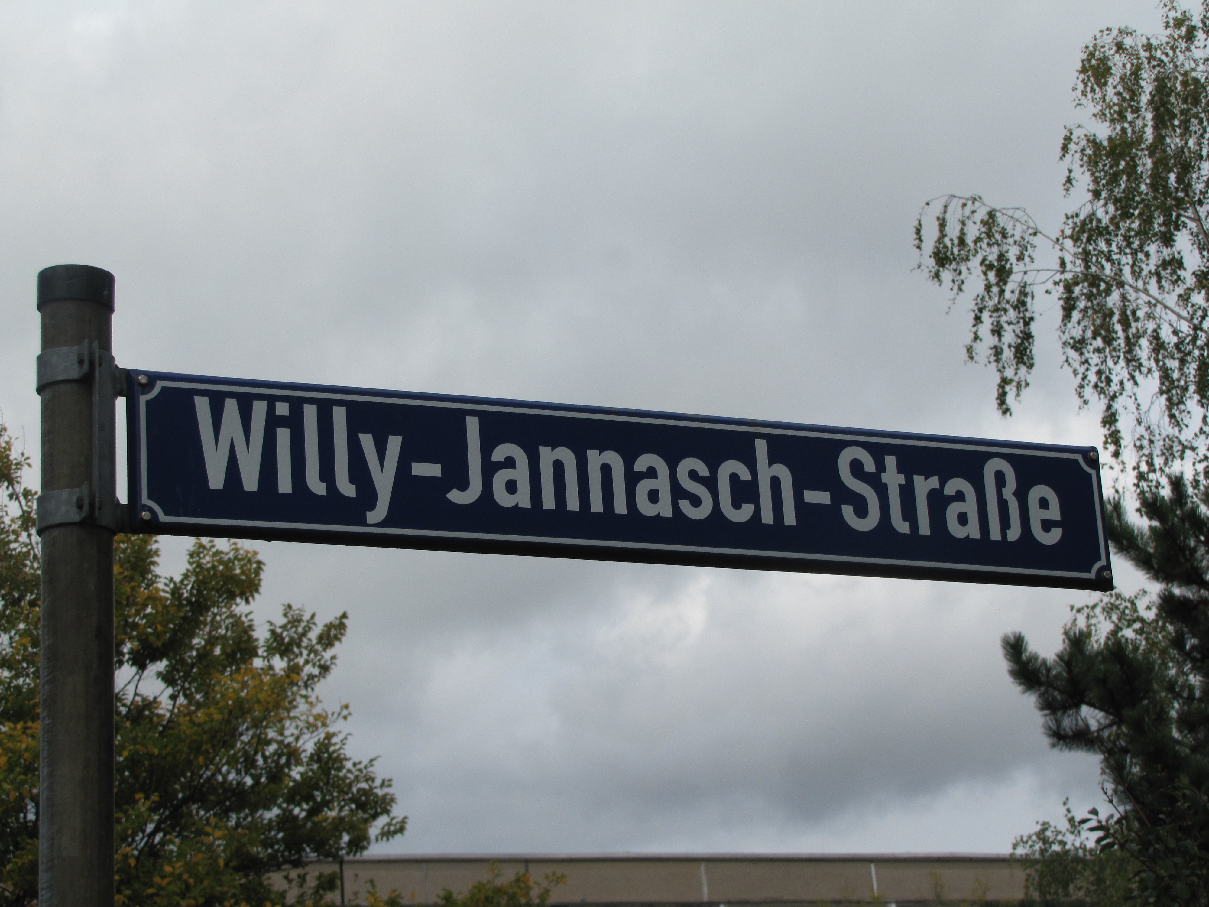 Street sign of Willy-Jannasch-Straße in Cottbus